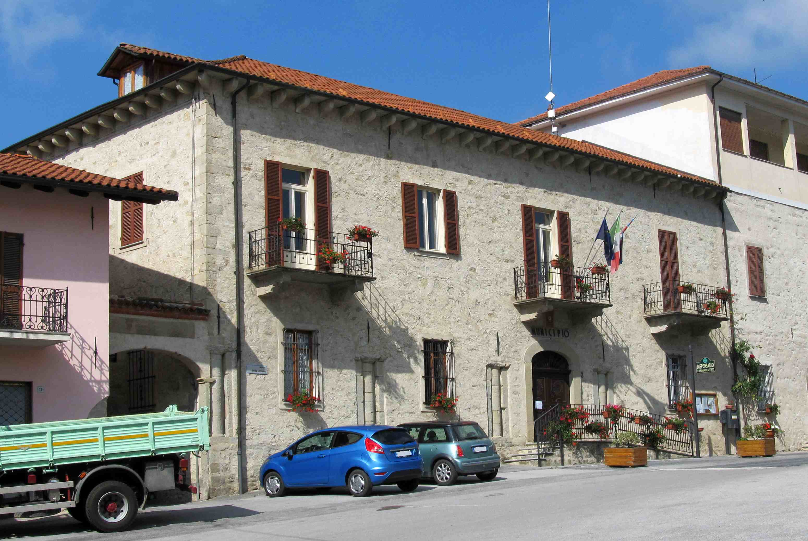 Gorzegno (CN, Italy): town hall